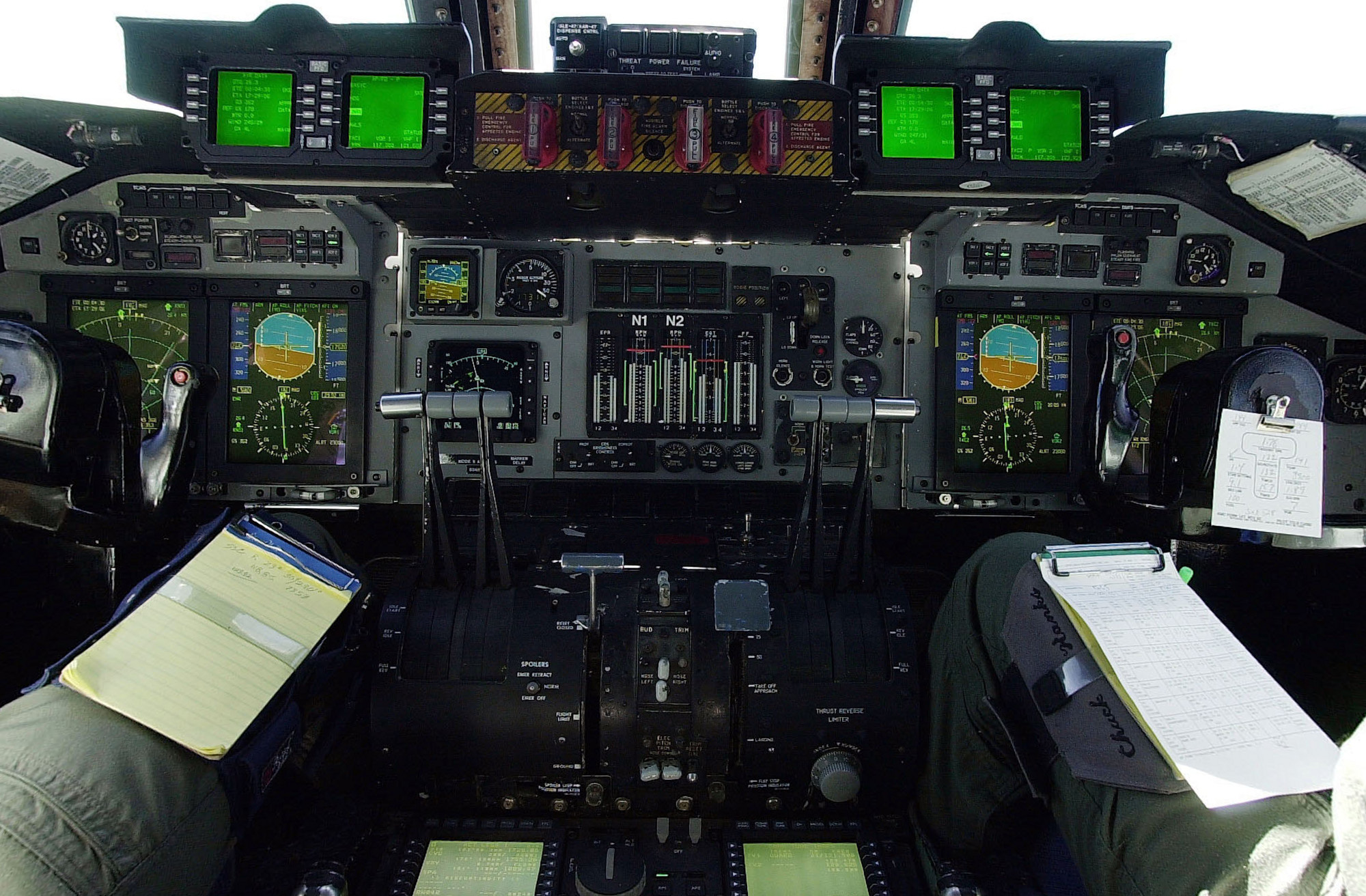 WRIGHT-PATTERSON AFB, OHIO (September 22, 2000) - An overview of new "Glass Cockpit" technologies on a C-141C Starlifter aircraft from the 89th Airlift Squadron (USAFR), Wright-Patterson Air Force Base, Ohio. More than sixty aircraft in the current C-141 fleet will undergo major modification. Each will receive the All Weather Flight Control System (AWFCS) consisting of a digital autopilot, advanced avionics display, and Ground Collision Avoidance System (GCAS). Other major improvements include a Defensive Systems (DS), Fuel Quantity Indicating System, and GPS modifications. The display units seen in front of each pilot are the Display Avionics Maintenance Unit (two green screens on top), Display Units (two large color screens in front of steering yoke), Multi-Function Stand-by Indicator (MFSI, the small color screen, right of the two left DUs), Traffic Collision Avoidance System (below MFSI), and the Flight Management System (green screen on lower panel inboard and adjacent to each seat).